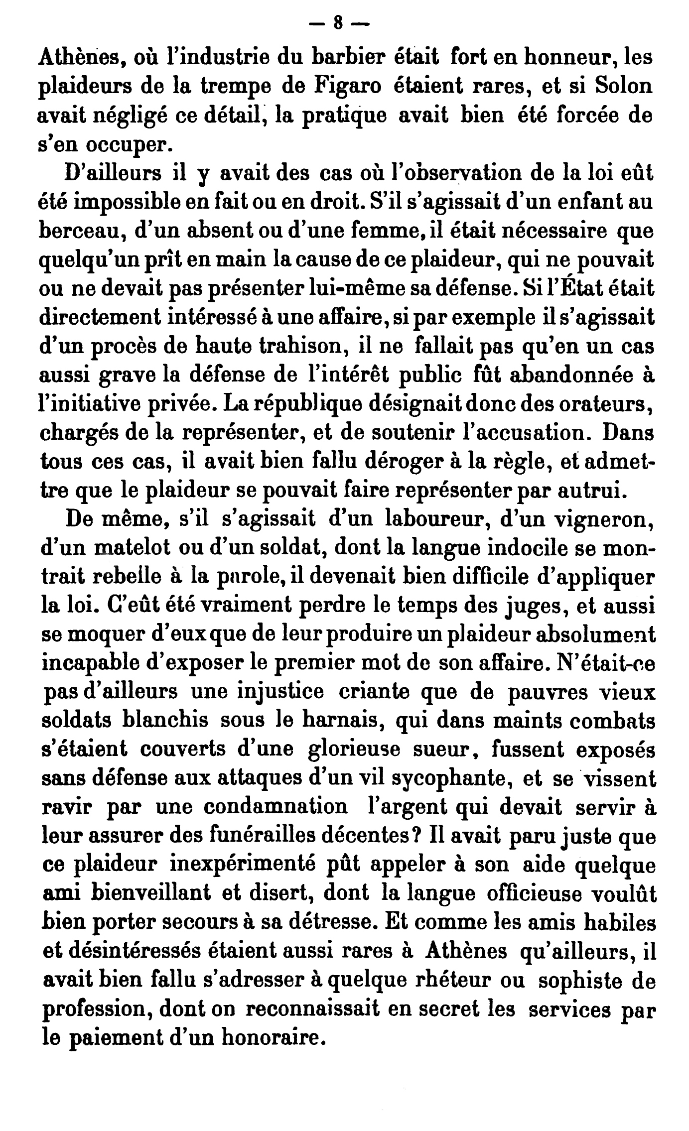 Page 8 from public domain book: Andre Morillot, "De L'Eloquence Judiciaire a Athenes," Discours Prononce a l'Ouverture de la Conference des Avocats. Le 15 Novembre 1873. Paris. Rue Soufflot. p. 8.